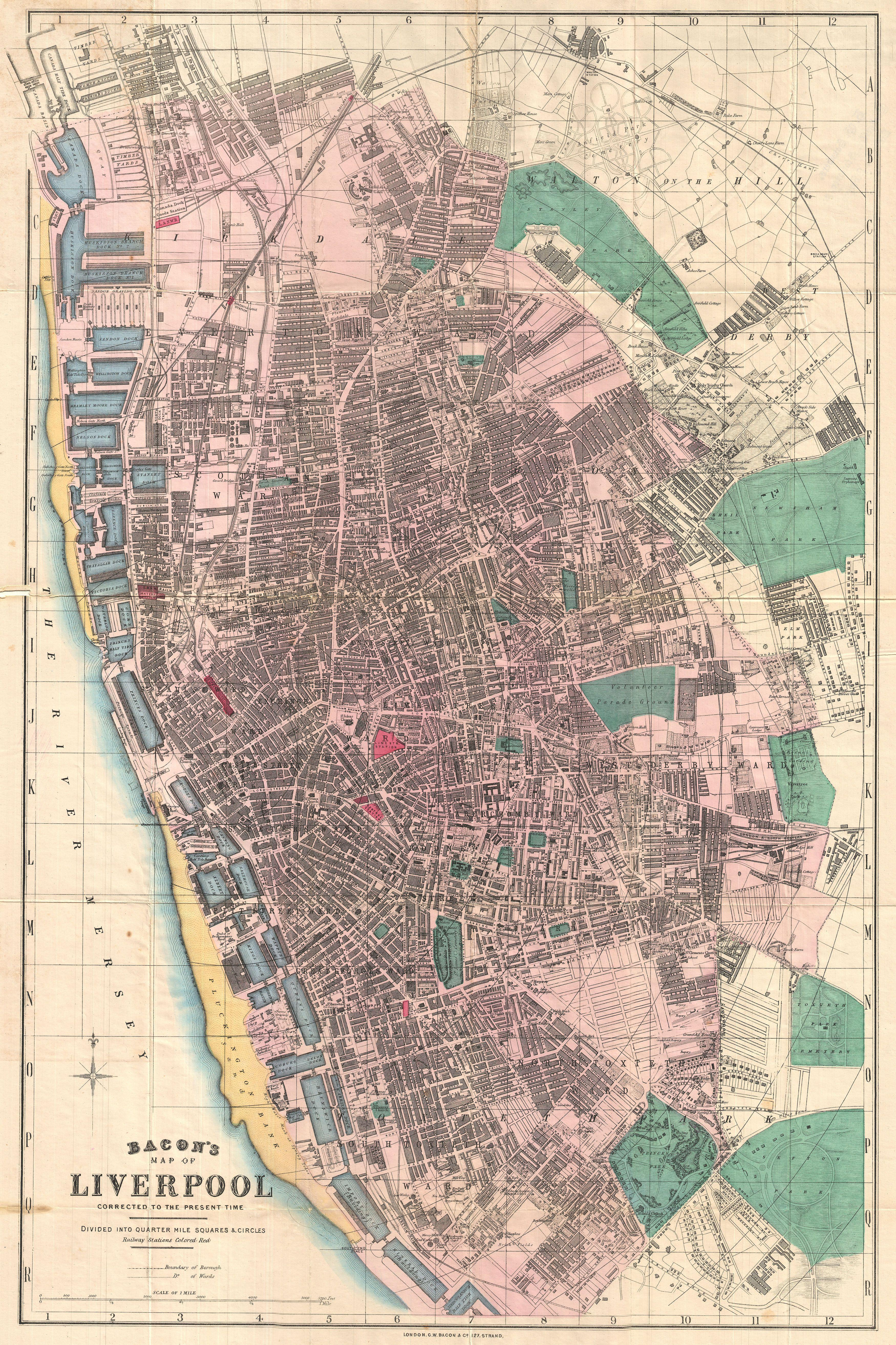 This is Bacon’s scarce c. 1890 travellers pocket map of Liverpool, England. Cartographically Bacon derived this map from the Ordinance Survey with embellishments including quarter mile grid and square segmentation, beautiful hand tinting, and a focus on the identification of docks, rail stations, churches, municipal buildings, parks, and other important buildings. Notes all streets and city wards. Parks are highlighted in green, pocks in blue, sandbars in yellow, and transportation hubs in red. Published form C. W. Bacon’s office at 127 Strand Street, London. This map was originally purchased in by A. H. Green in Liverpool bookseller and stationer H. B. Saunders. Though most maps are without substantial provenance, this map is known to have been originally purchased for the European tour of the prominent 19th century New Yorker Andrew Haswell Green (1820 - November 13, 1903). A. H. Green was a New York lawyer, city planner, civic leader and agitator for reform. Called by some historians a hundred years later the 19th century Robert Moses, he held several offices and played important roles in many New York projects, including the development of Riverside Drive, Morningside Park, Fort Washington Park, and Central Park. His last great project was the consolidation of the Imperial City or “City of Greater New York” from the earlier cities of New York, Brooklyn and Long Island City, and still largely rural parts of Westchester, Richmond and Queens Counties. In 1903 Green was murdered in a case of mistaken identity. He is buried in Worcester. In 1905 his family estate in Worchester was turned into a public park. Green's personal effects and other belongings were stored for over 100 years until recently being rediscovered and offed for sale.